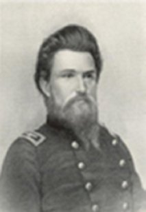 photograph of Henry Clay Caldwell, Federal judge and union army officer in uniform